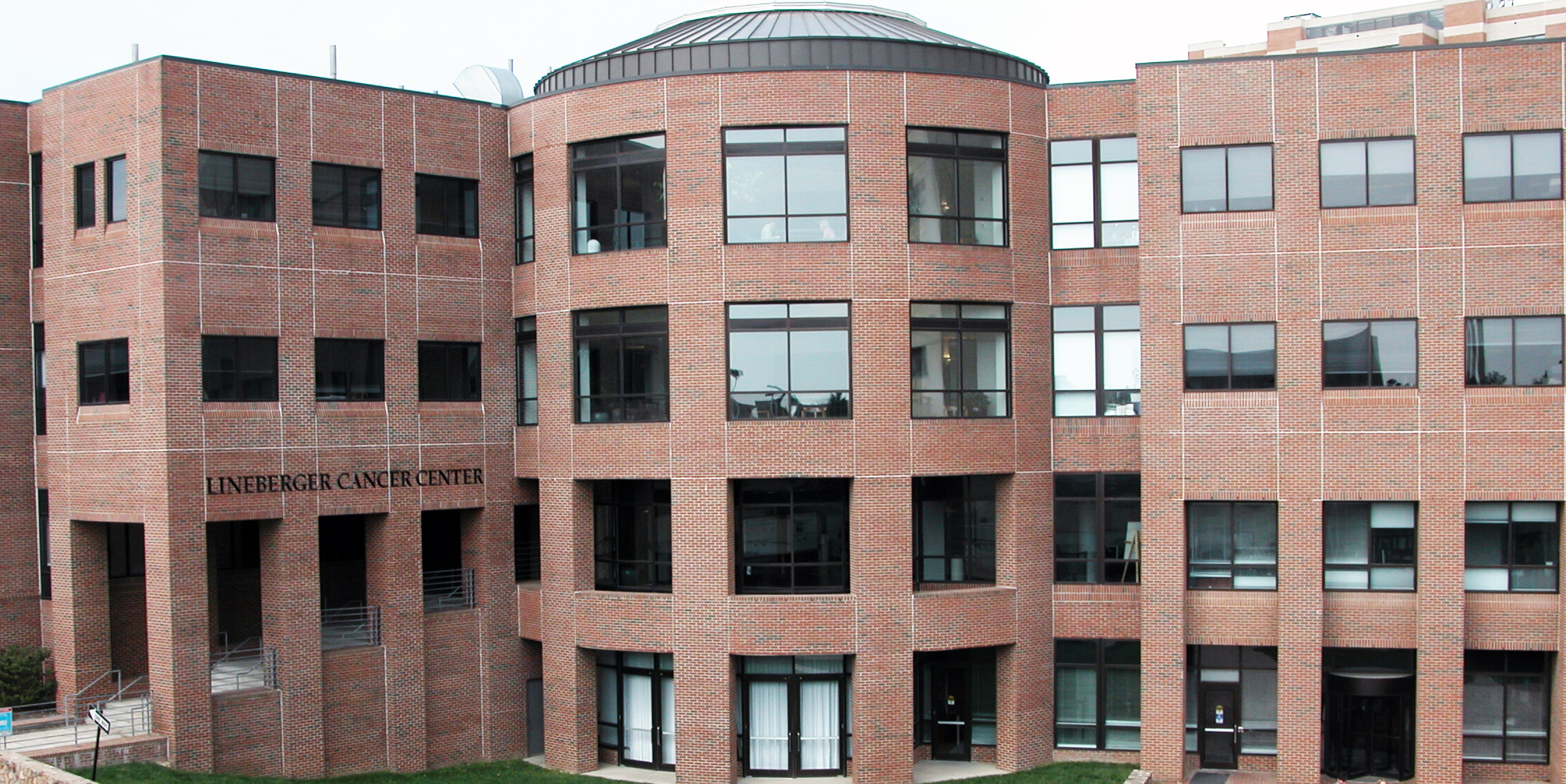 The UNC Lineberger Comprehensive Cancer Center building is located on the campus of the University of North Carolina in Chapel Hill, NC. Patients are treated by UNC Lineberger physicians at the N.C. Cancer Hospital, located across the street. Photo taken in 2005.